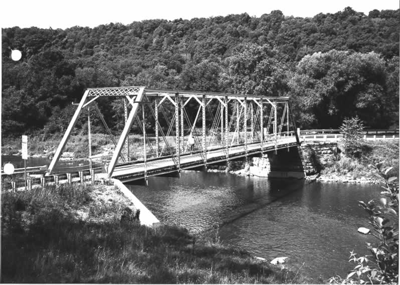 Bridge in Cherrytree Township, which carries Legislative Route 60052 over Oil Creek in Cherrytree Township, Venango County, Pennsylvania, United States.